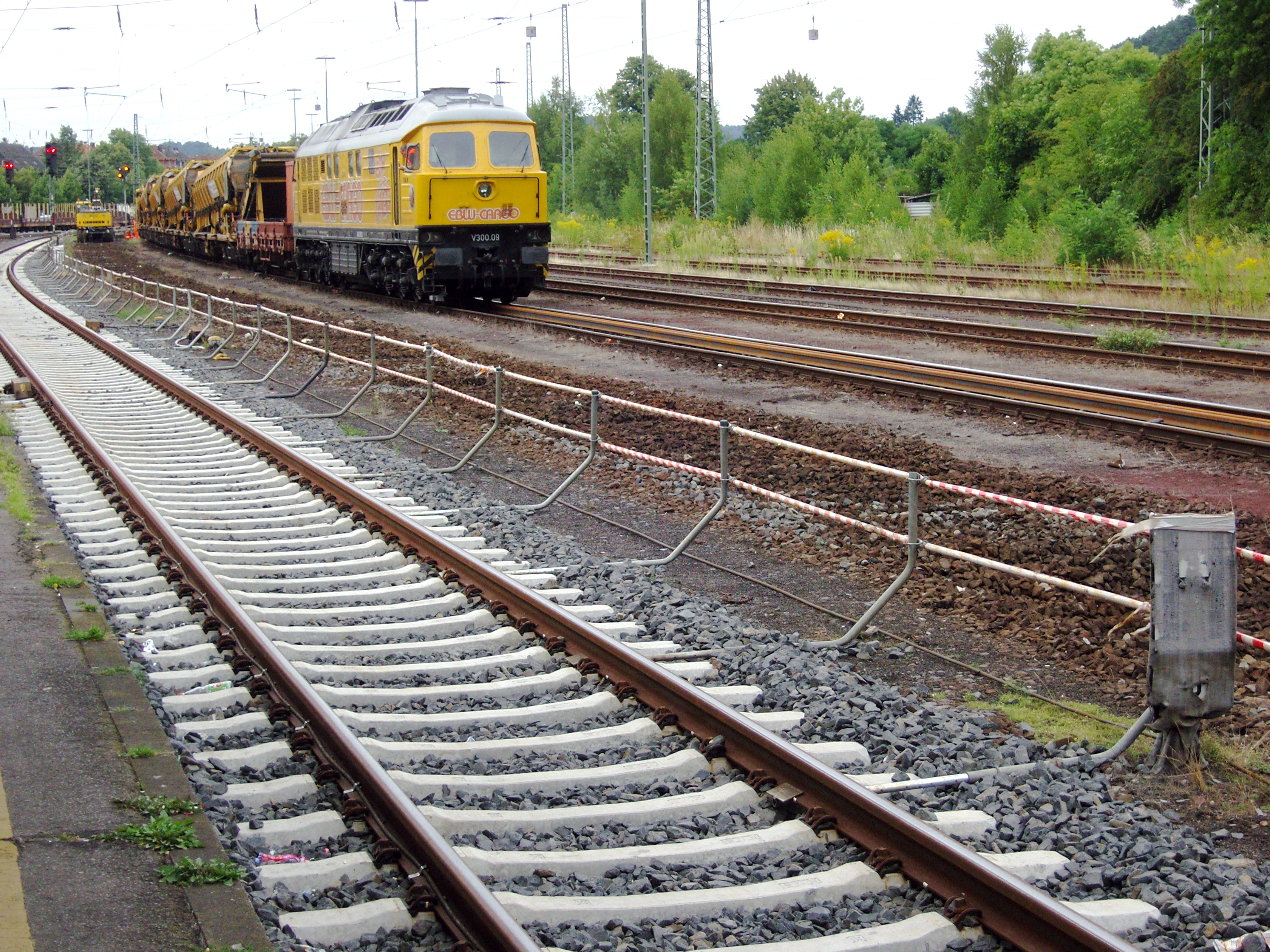 Fixed barrier between operative platform track and construction area, Marburg (Lahn) station, Germany